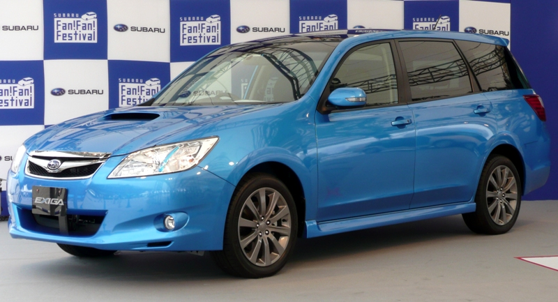 Subaru Exiga.